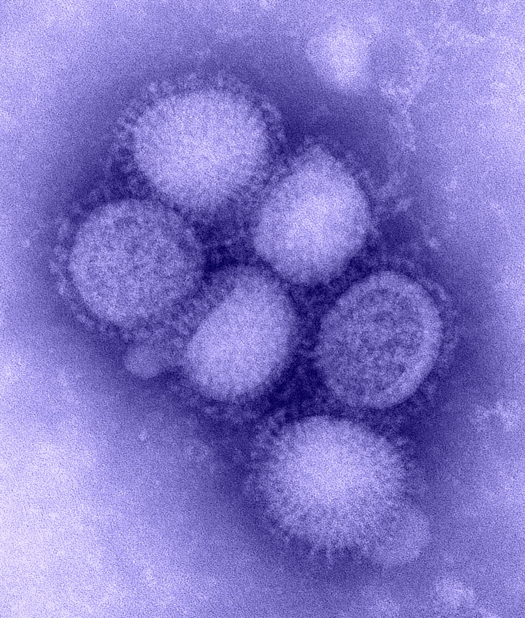 Image of the newly identified H1N1 influenza virus, taken in the CDC Influenza Laboratory.